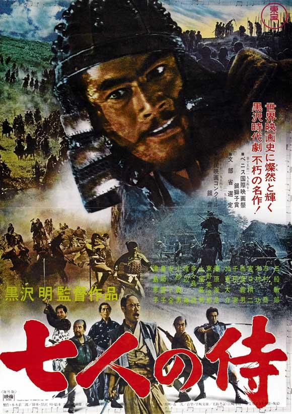 A Japanese poster for Akira Kurosawa's Seven Samurai.